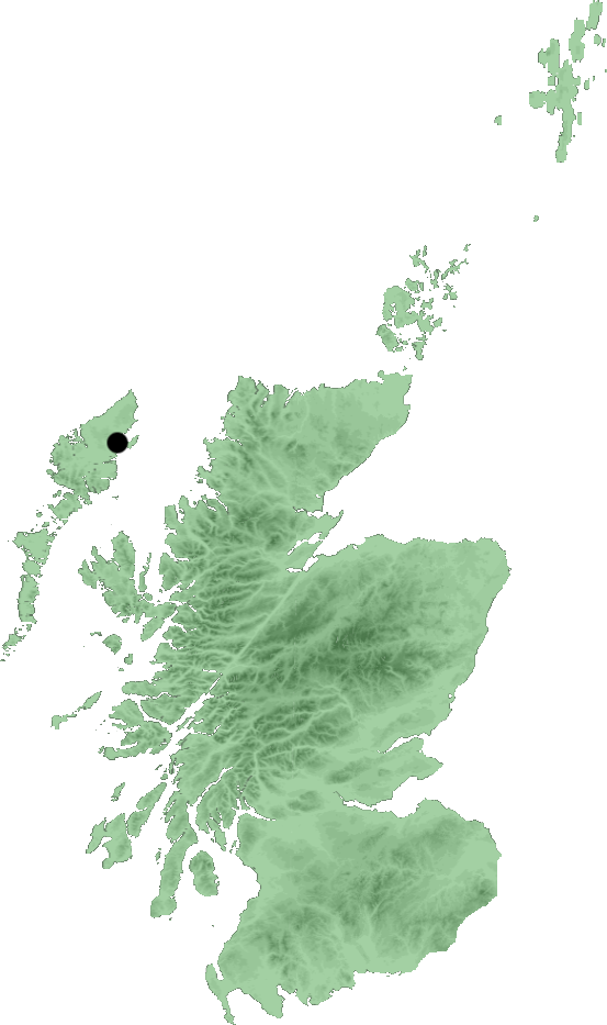 Location of Stornoway within Scotland